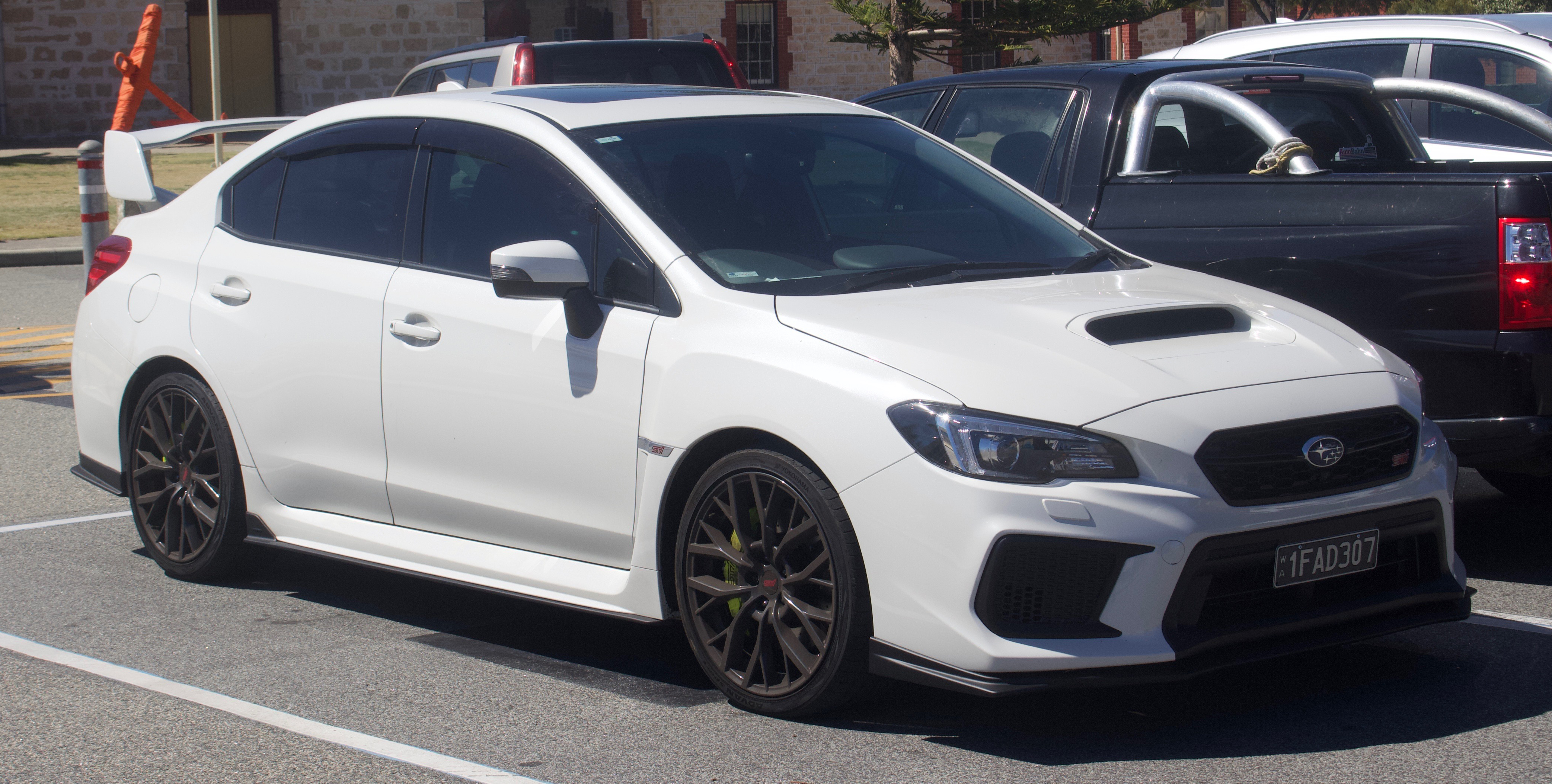 2018 Subaru WRX (VAF MY18) STI sedan. Photographed in Fremantle, Western Australia, Australia.